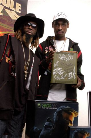 Ying Yang Twins with Xbox 360.